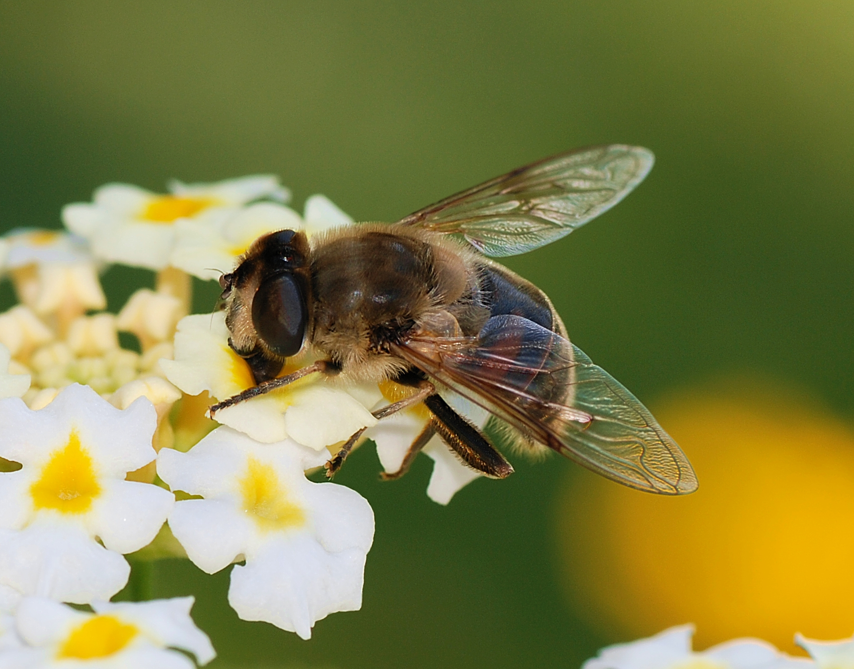 Hoverfly (Eristalis tenax)